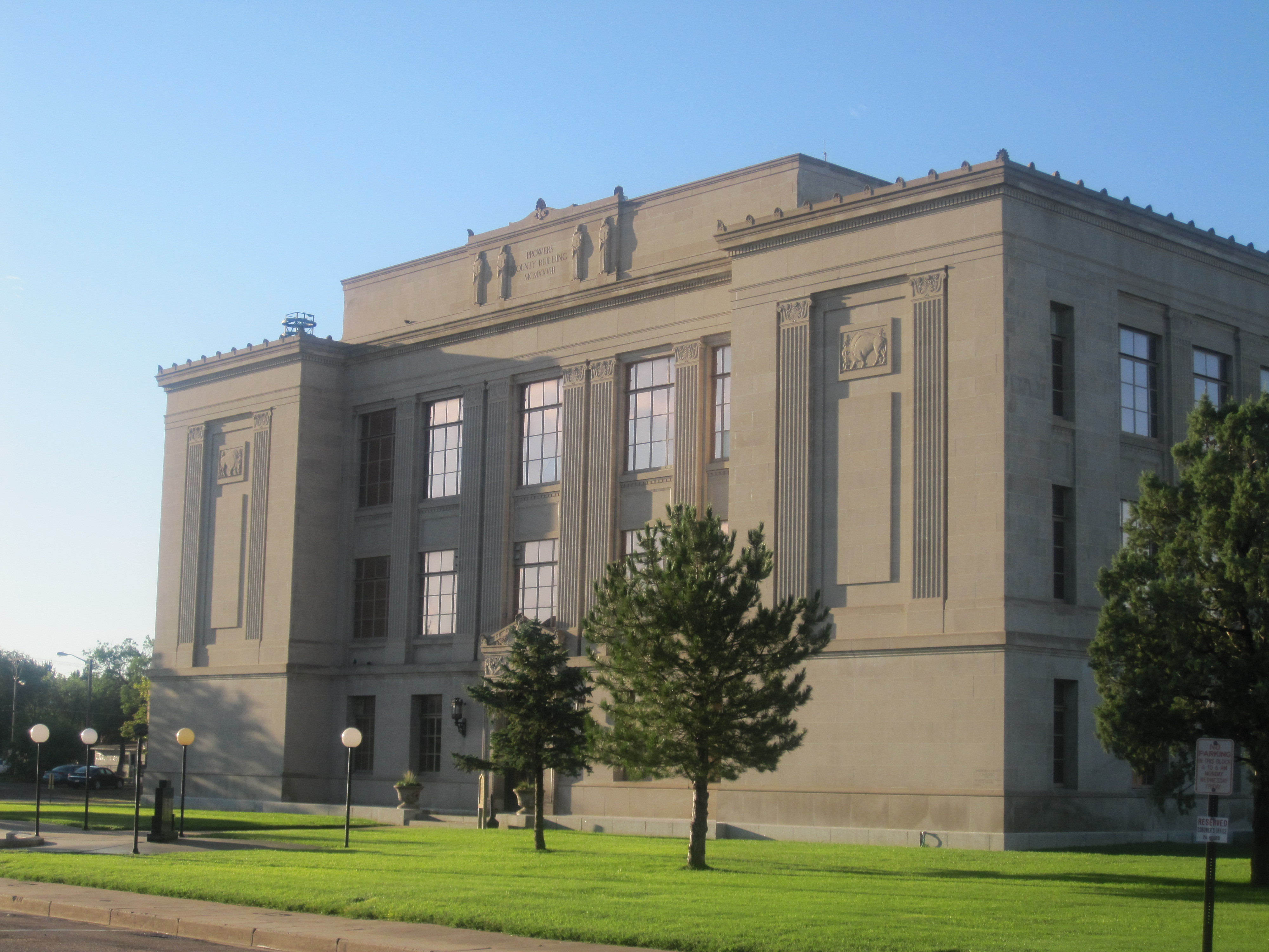 I took photo in Lamar, CO, with Canon camera.